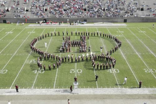 Harvard Band in bass drum formation during halfdtime shows of Dartmouth football game in 1999.